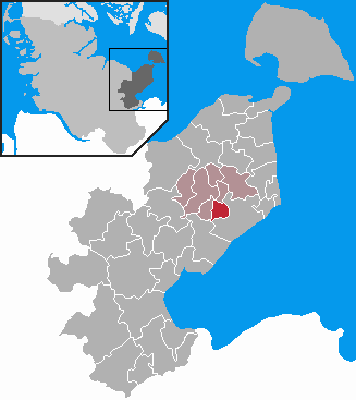 This map shows the area of the Gemeinde (municipality) Manhagen in the Kreis (district) Ostholstein, Schleswig-Holstein, Germany.